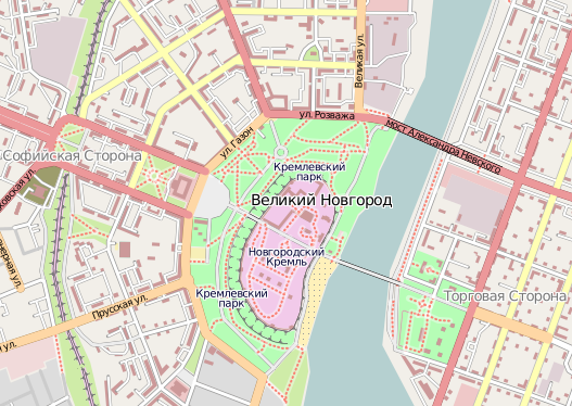 This map may be incomplete, and may contain errors. Don't rely solely on it for navigation.